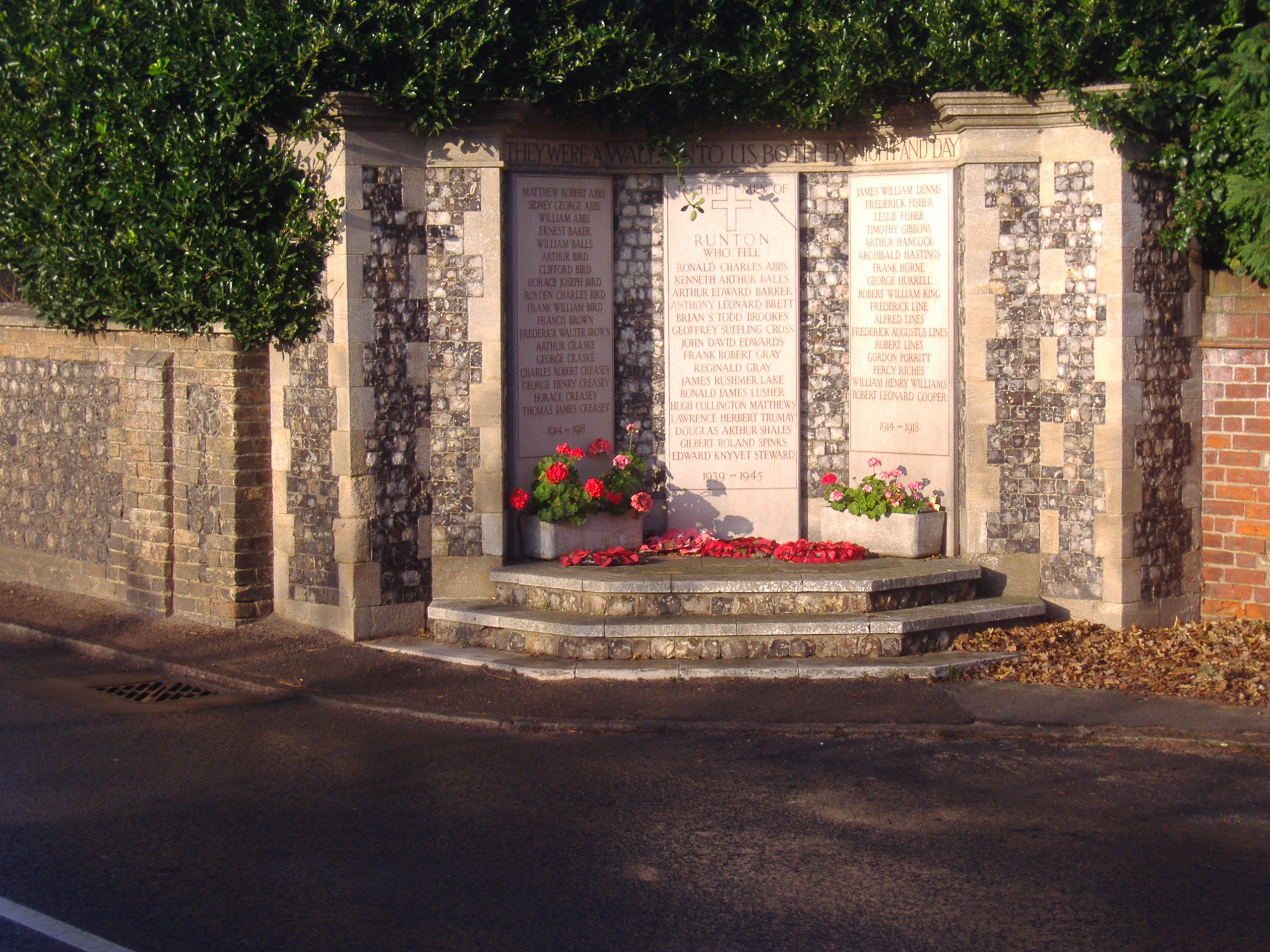 A Digital Photograph of West Runton War Memorial Taken on the 19th December 2007 by stavros1